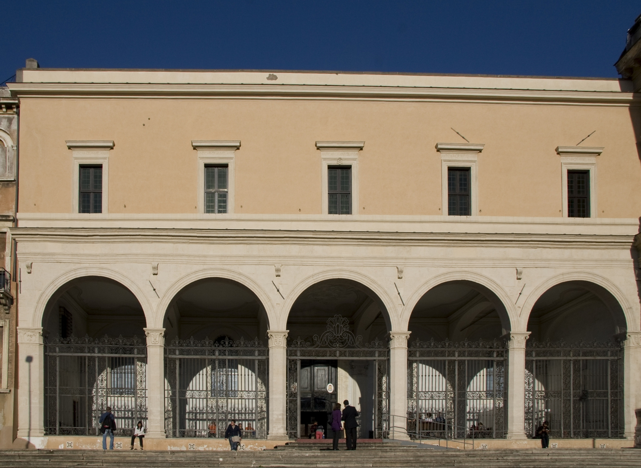 San Pietro in Vincoli is a church of Rome in Italy.